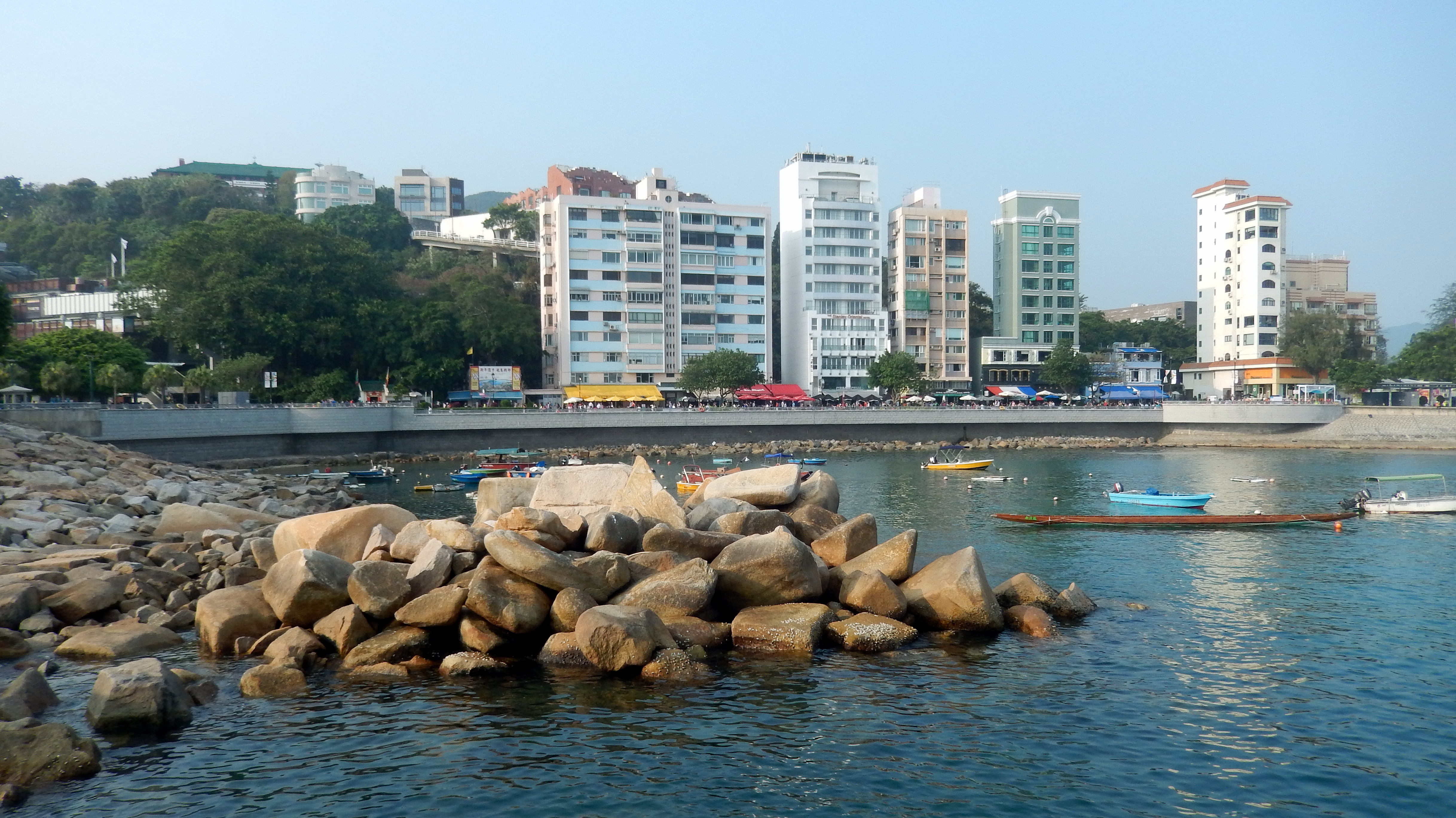 Stanley Promenade 赤柱海濱長廊